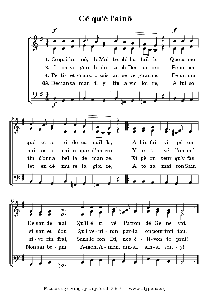 Music of the Cé qu'è lainô (modern arpitan: Cél qu’est lé-’n-hôt); lyrics for the four stanzas usually sung are also included.